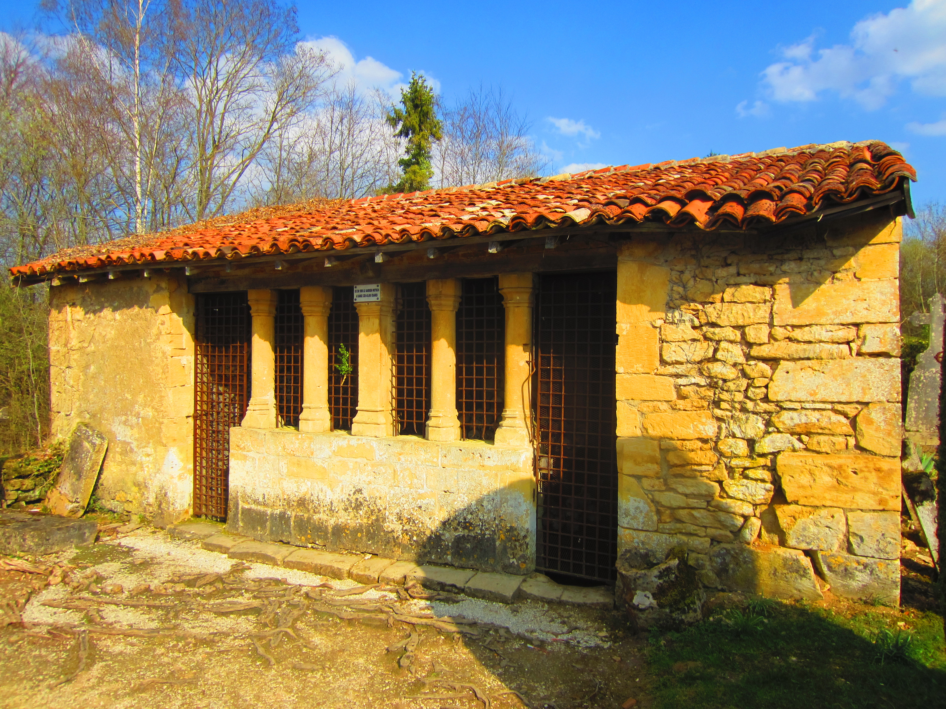 Marville St Hilaire ossuaire